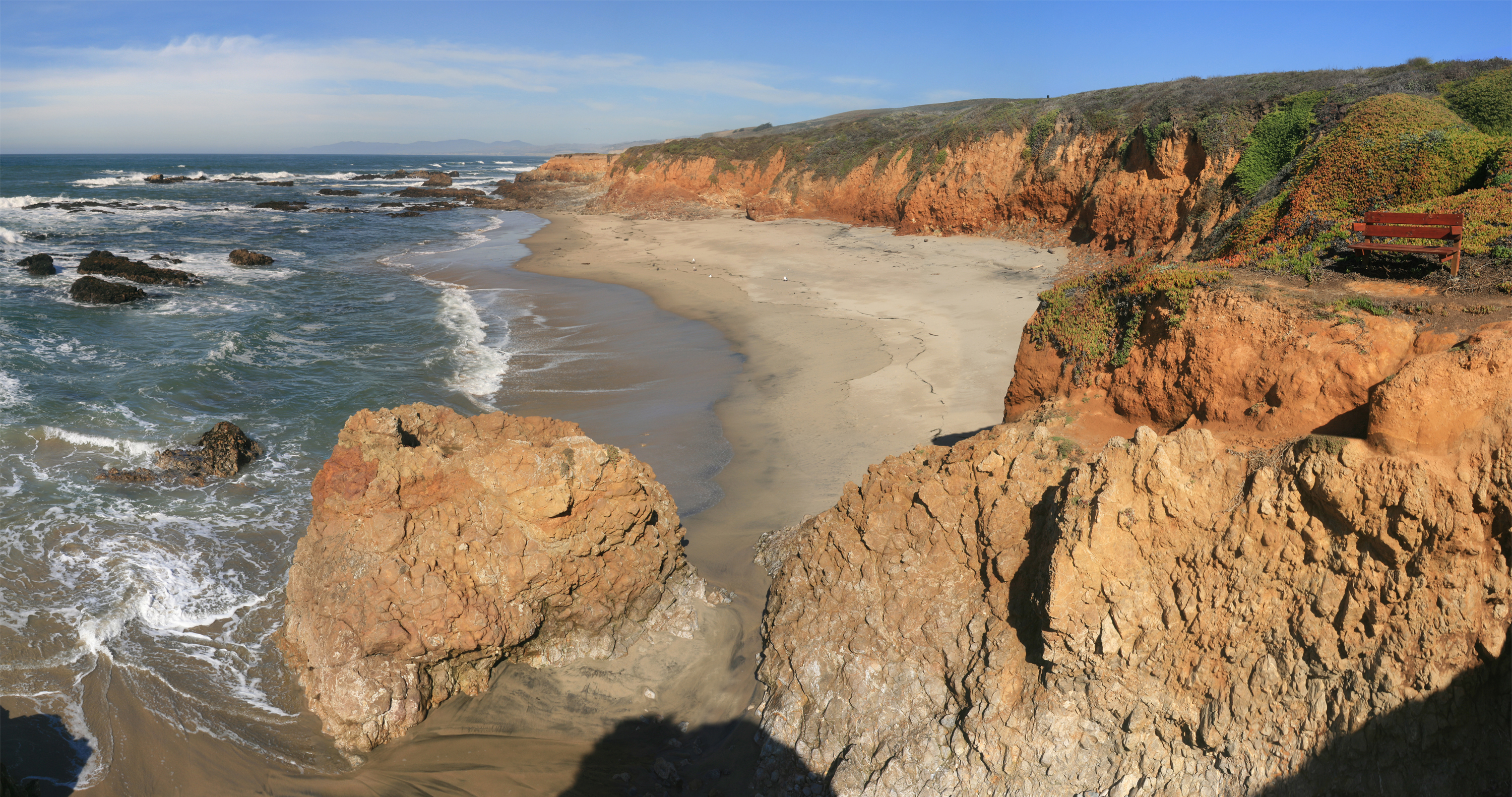 Pescadero State Beach